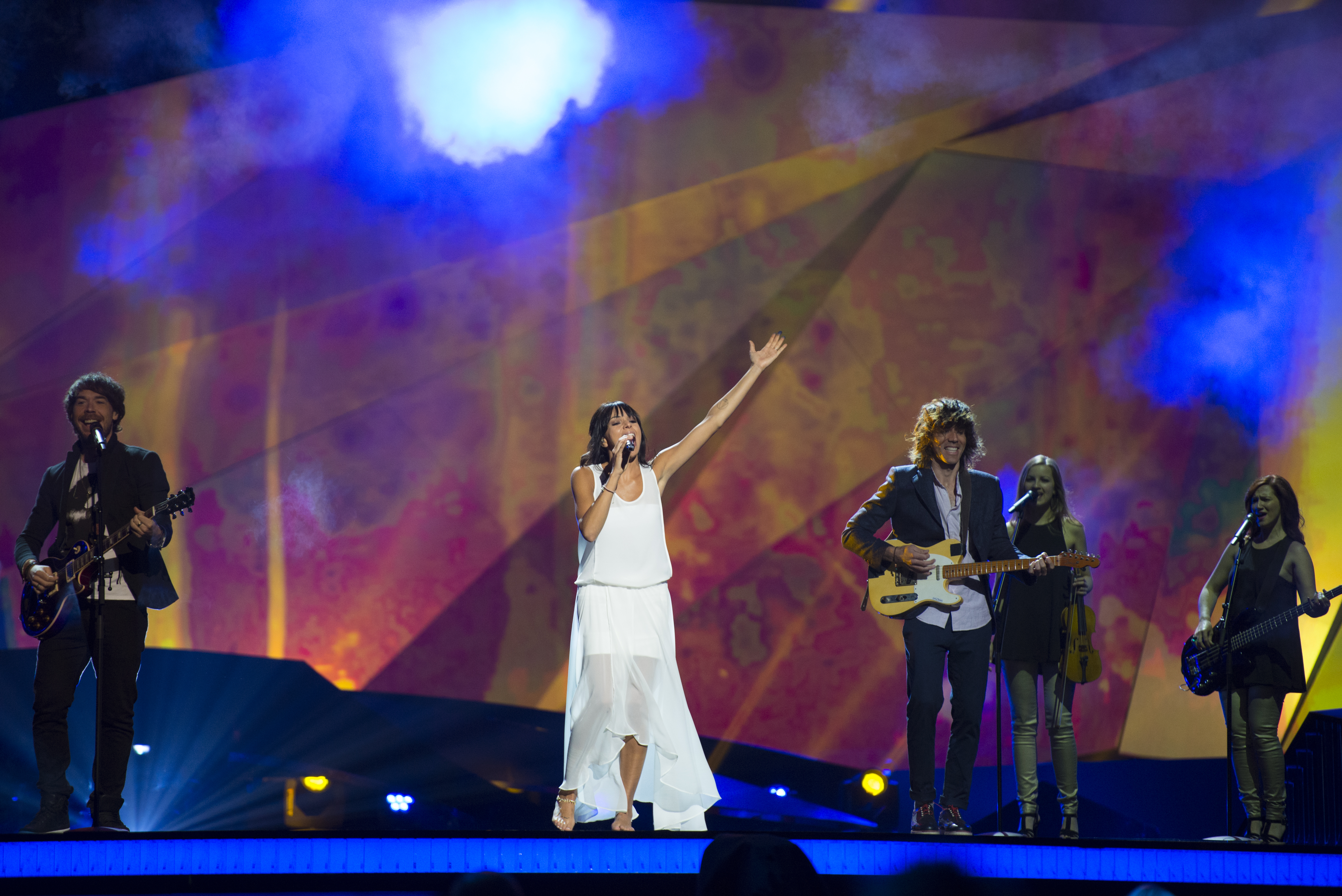 El Sueño de Morfeo representing Spain with the song "Contigo hasta el final" during the first dress rehearsal for "the Big Five" in the Eurovision Song Contest 2013 Malmö. (Help translate this text)